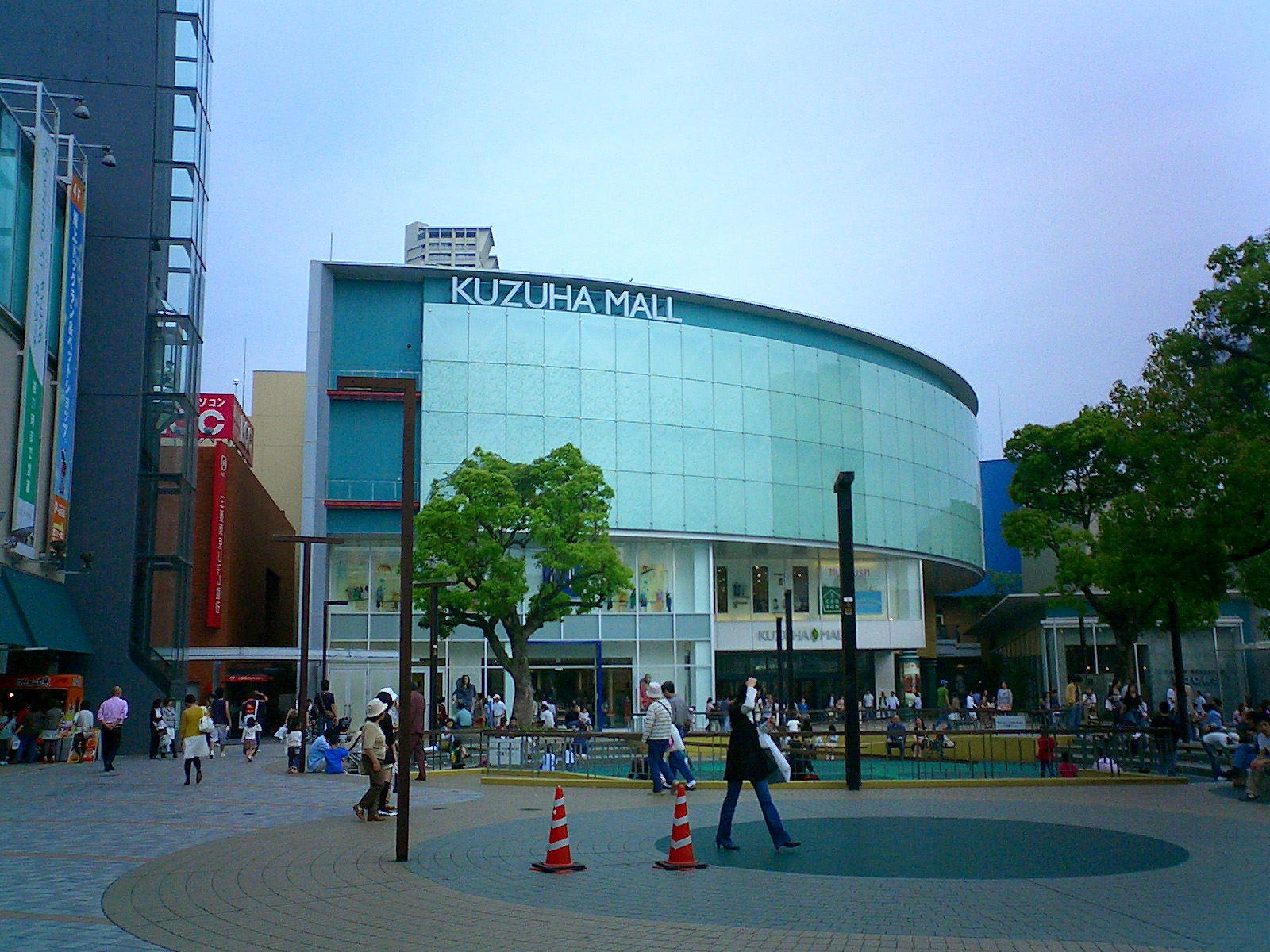 KUZUHA MALL Main Building